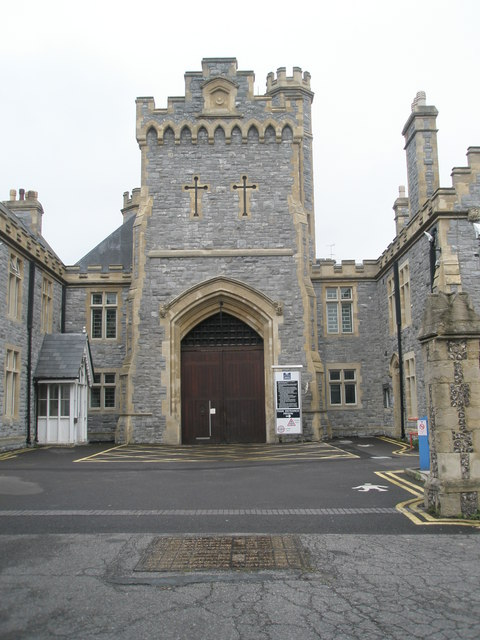 Main entrance to HMP Kingston Recently I was very surprised to find out a member of my family had been here- my aunt told me a school friend of her's was the daughter of the prison governor; and she went to tea there once.